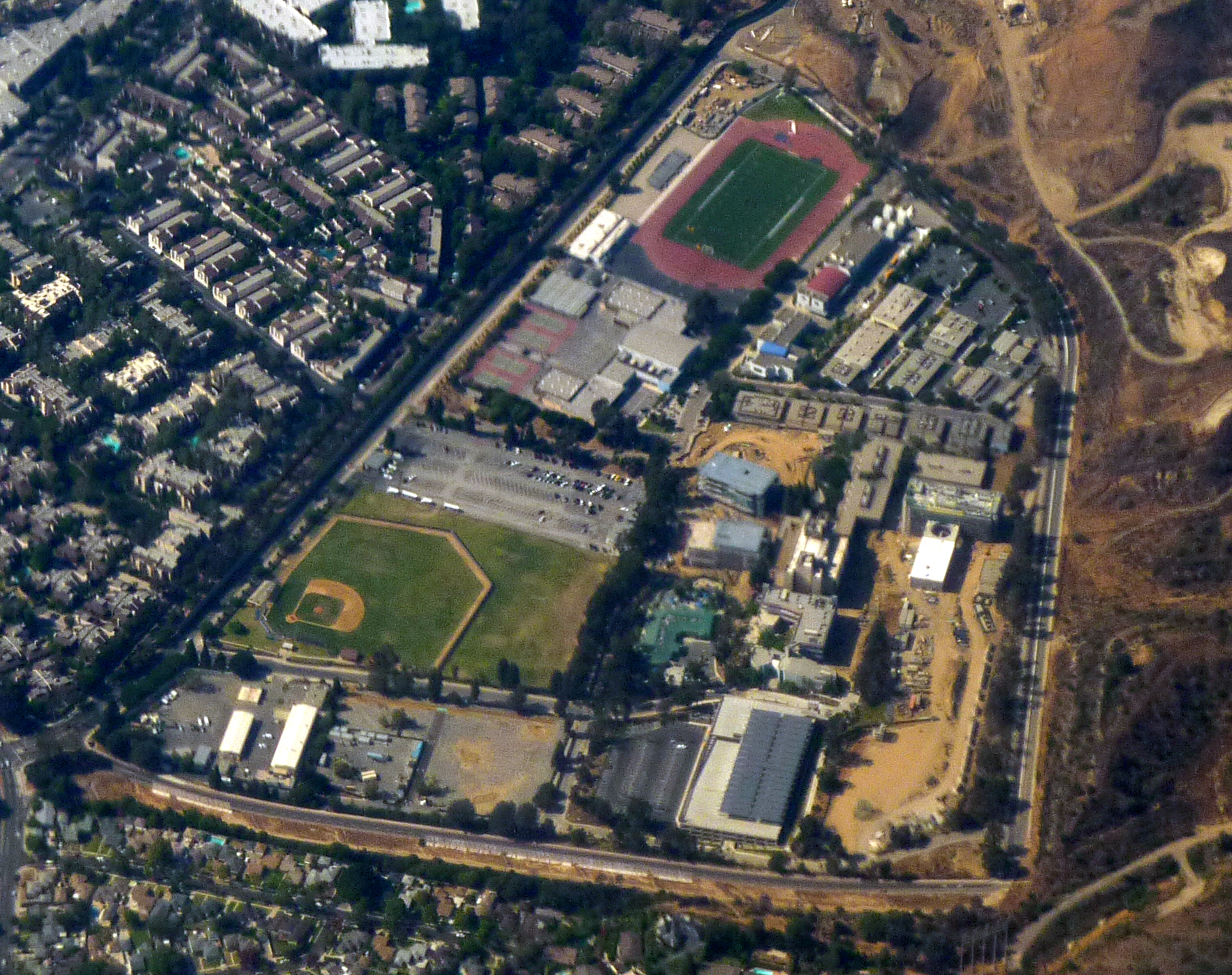 West Los Angeles College, Ladera Heights, California, USA.